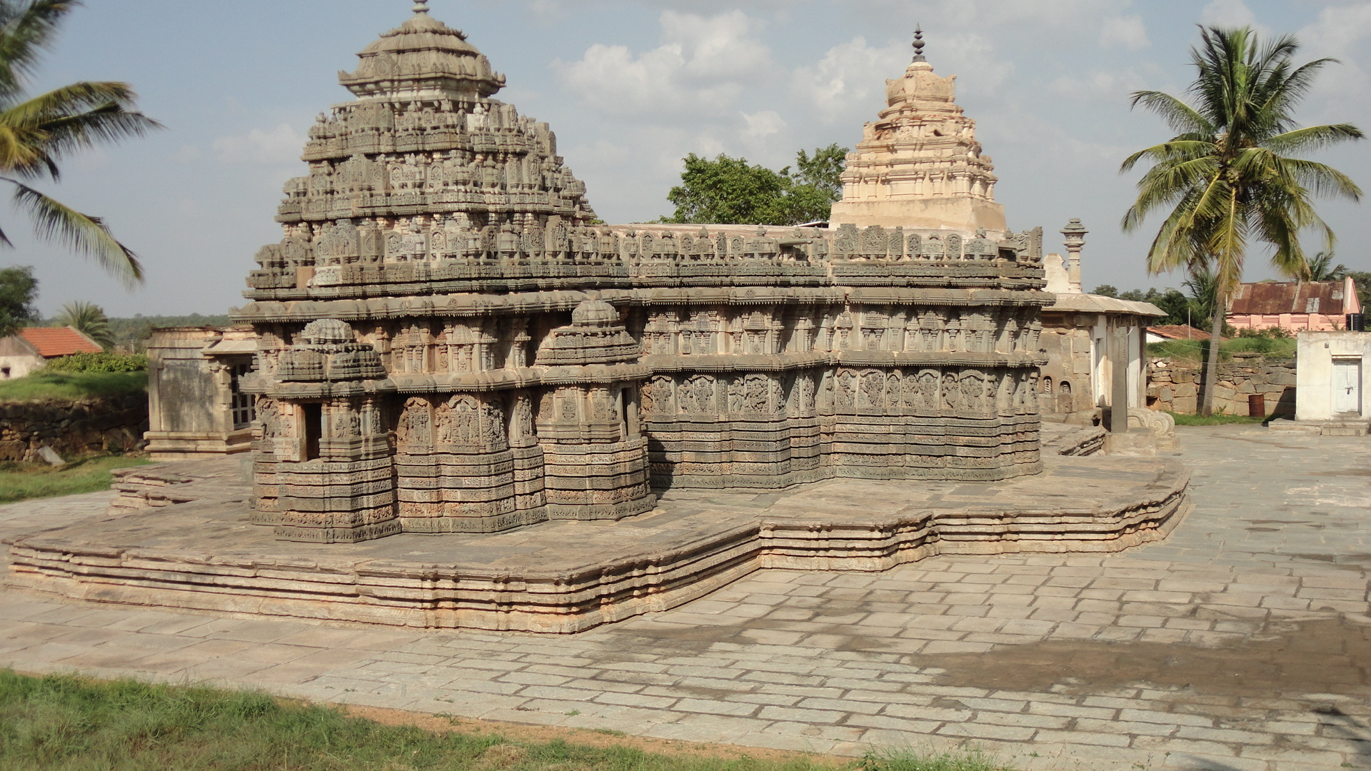 This photo is just another close up view of the western part of the temple featuring the two sanctorum domes. The third dome is hidden just behind the left ancient sanctorum dome.